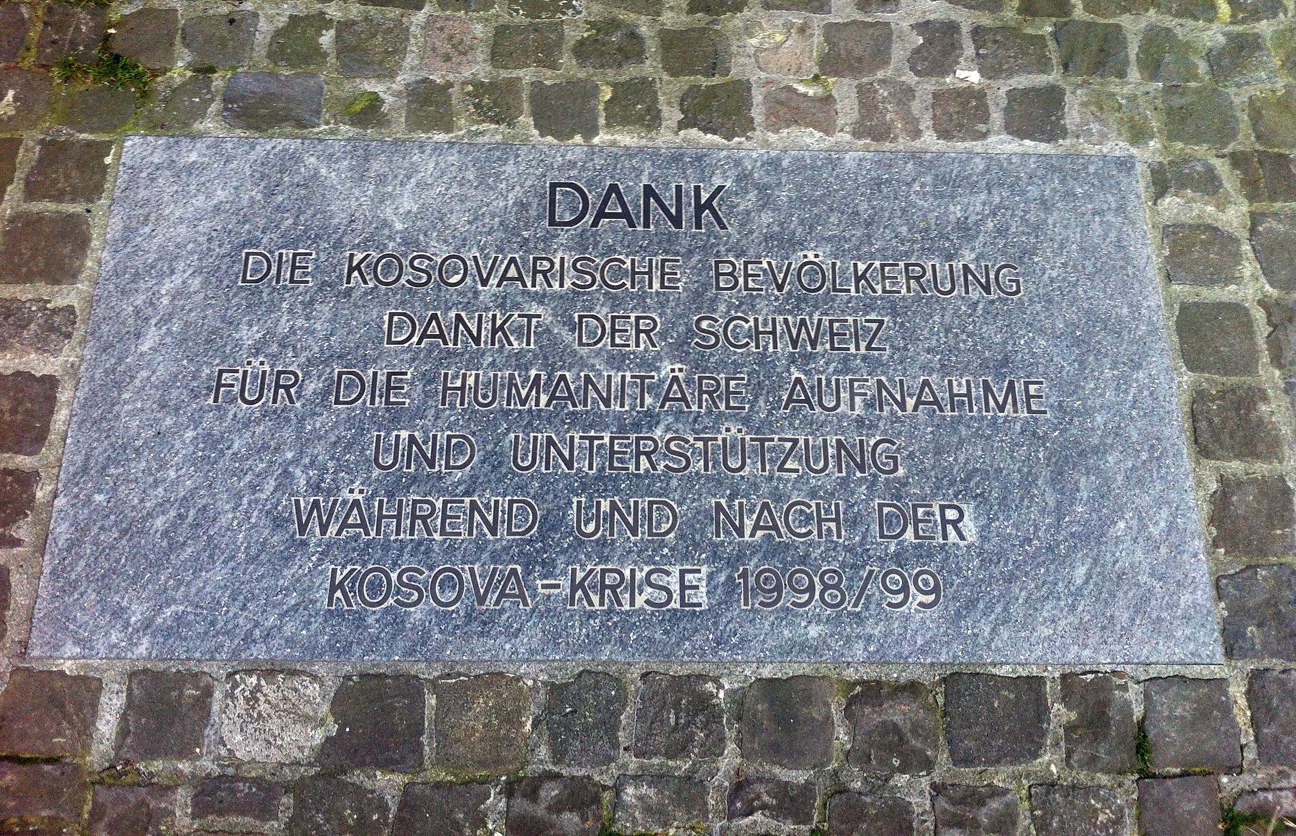 Plaque to the Kosovo war in 1998/99 in Zurich, Switzerland, thanking the Swiss people for their assistance: The Kosovar People Thanks Switzerland for the Humanitarian Accommodation and Support during and after the Kosova Crisis 1998/99